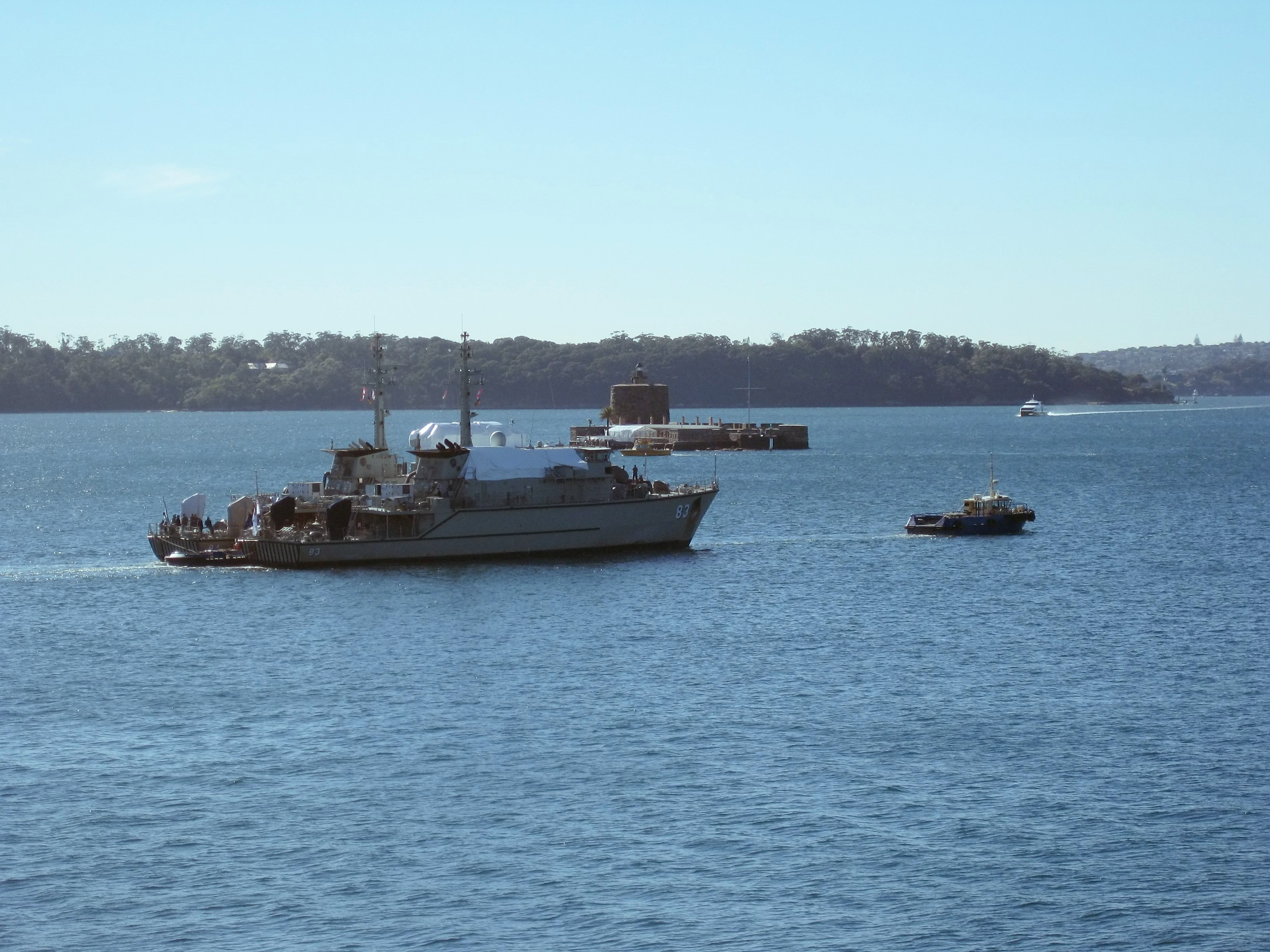 HMAS Hawkesbury (foreground) and Norman under tow in Sydney Harbour on 17 August 2010